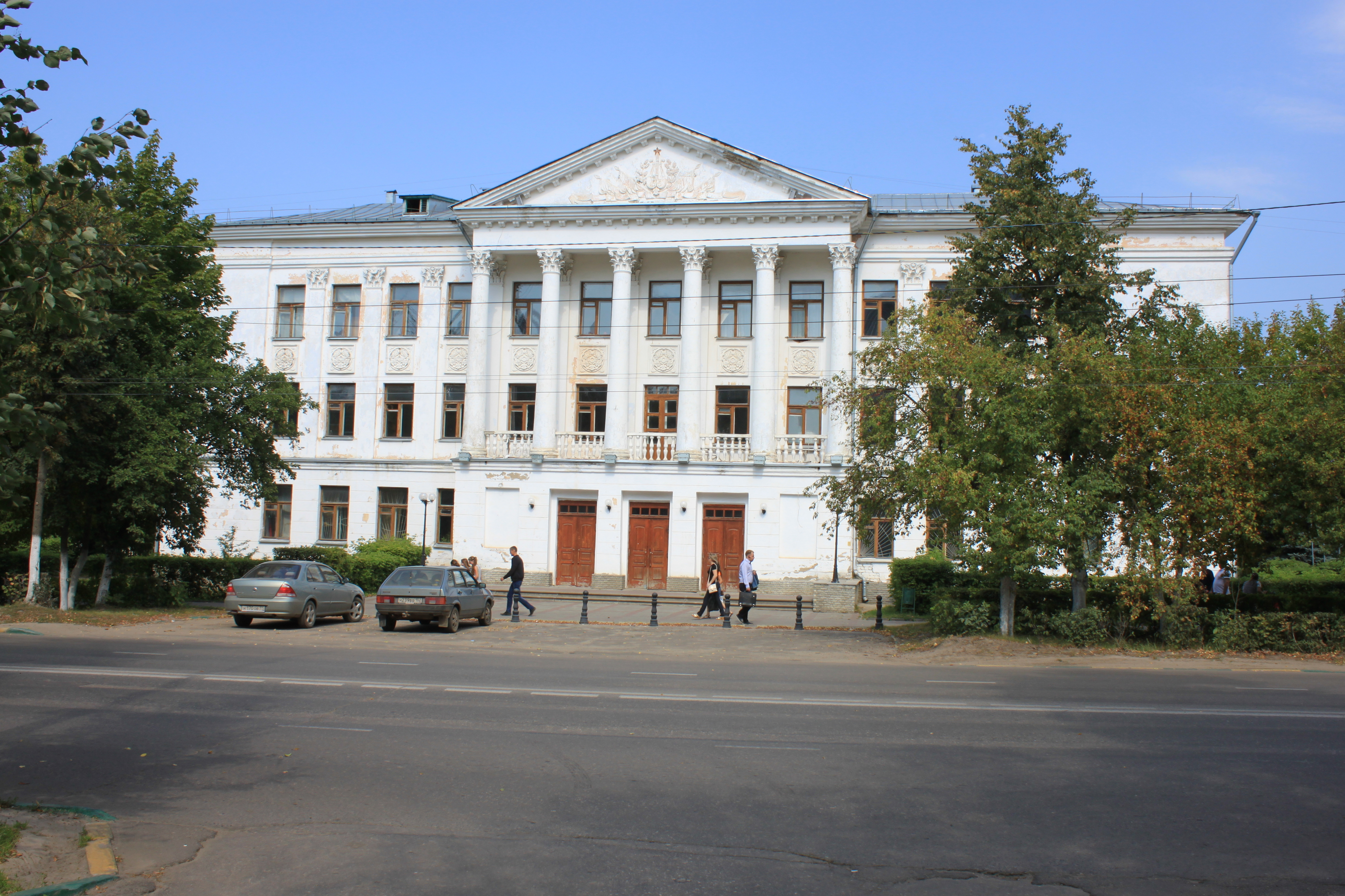 Arzamas Dramatische Theater